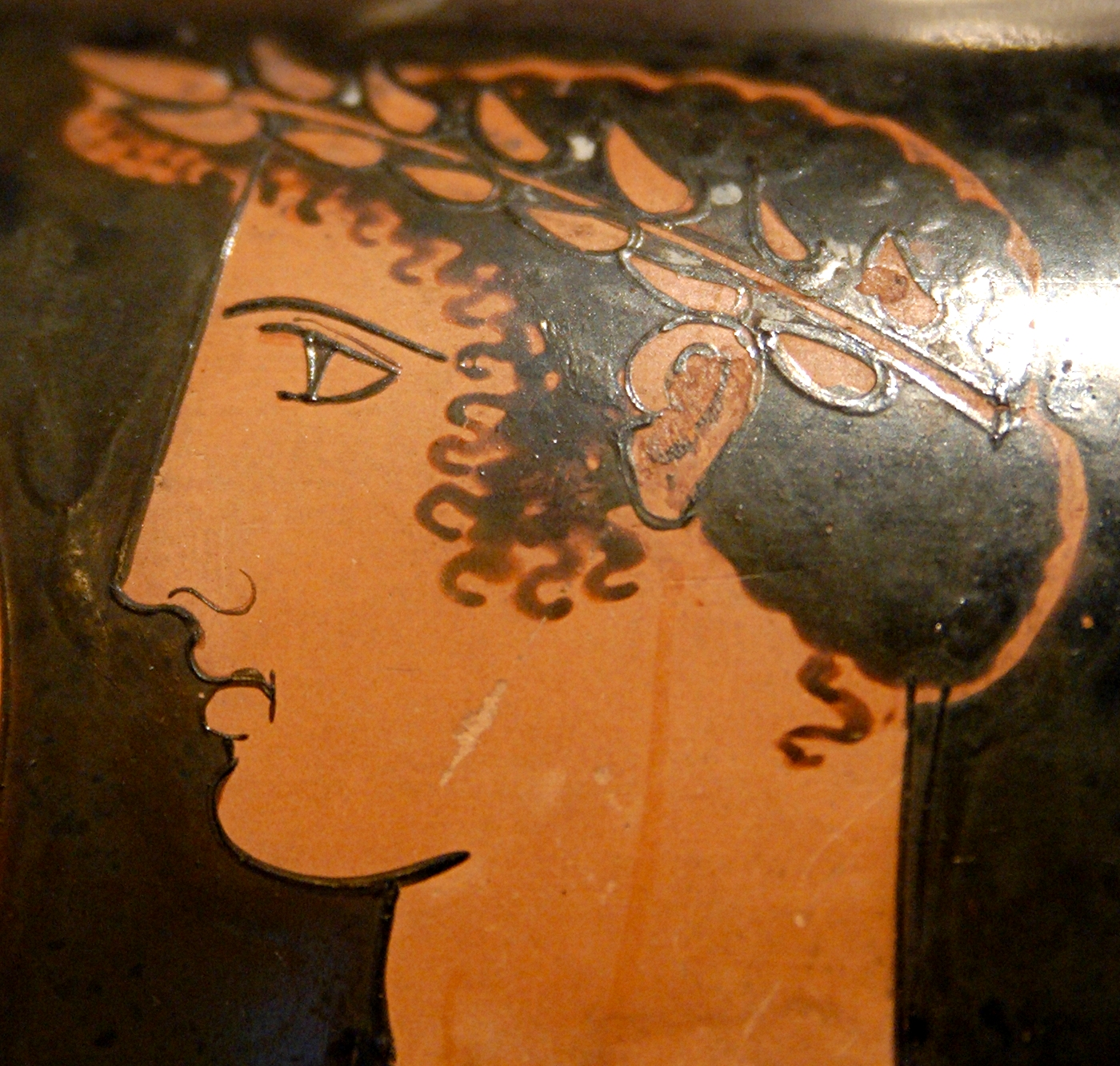 Male face, detail from a scene representing the departure of a warrior. Side B from an Attic red-figure volute-krater, ca. 460–450 BC.